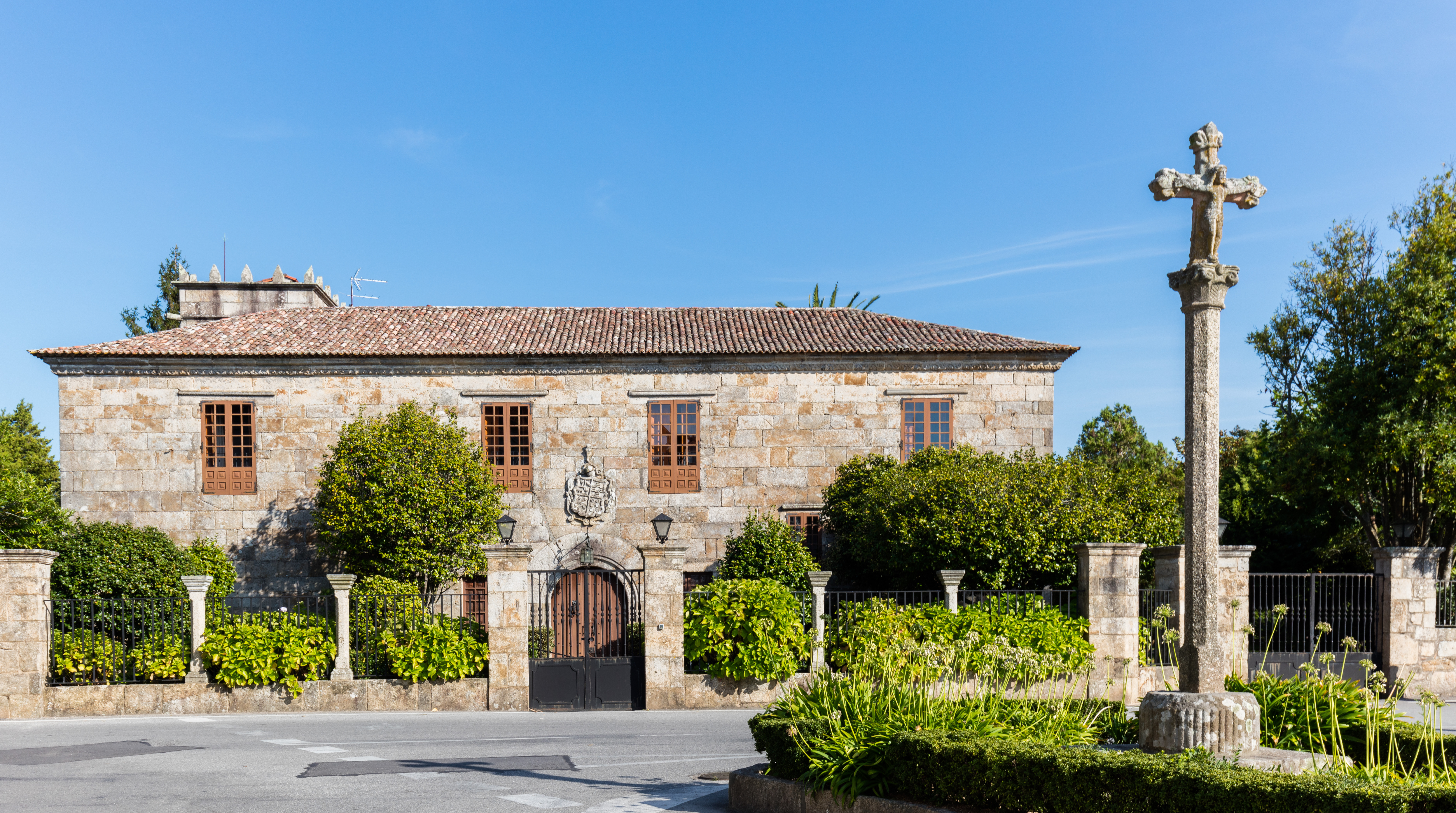 Ulloa Palace, Cambados, Pontevedra, Spain